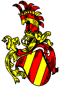 Coat of arms of County of Kladsko (german Grafschaft Glatz).